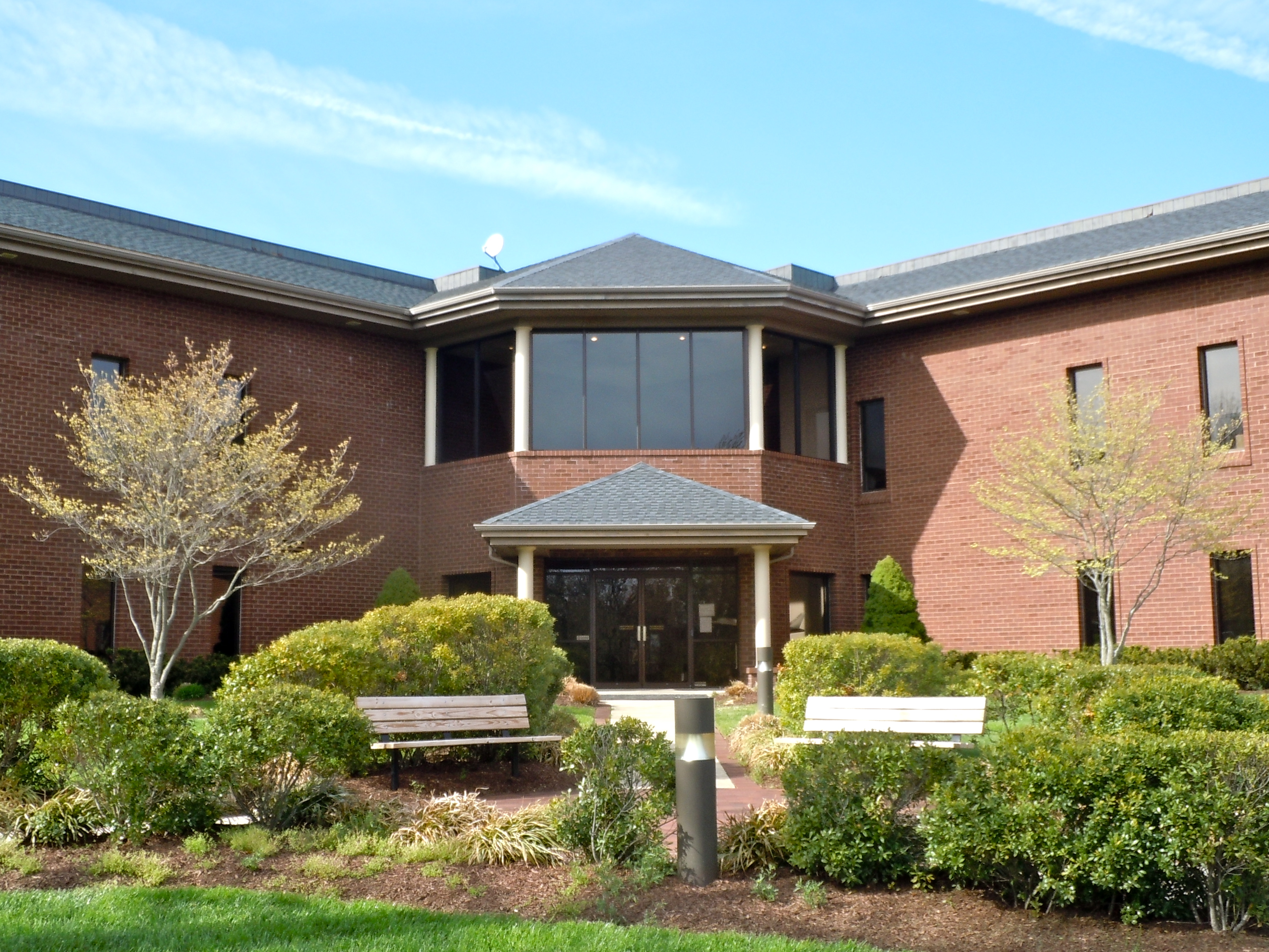 Headquarters of the airline USA 3000, on Bishop Hollow Road, in Newtown Township, Delaware County, Pennsylvania (aka Newtown Square)